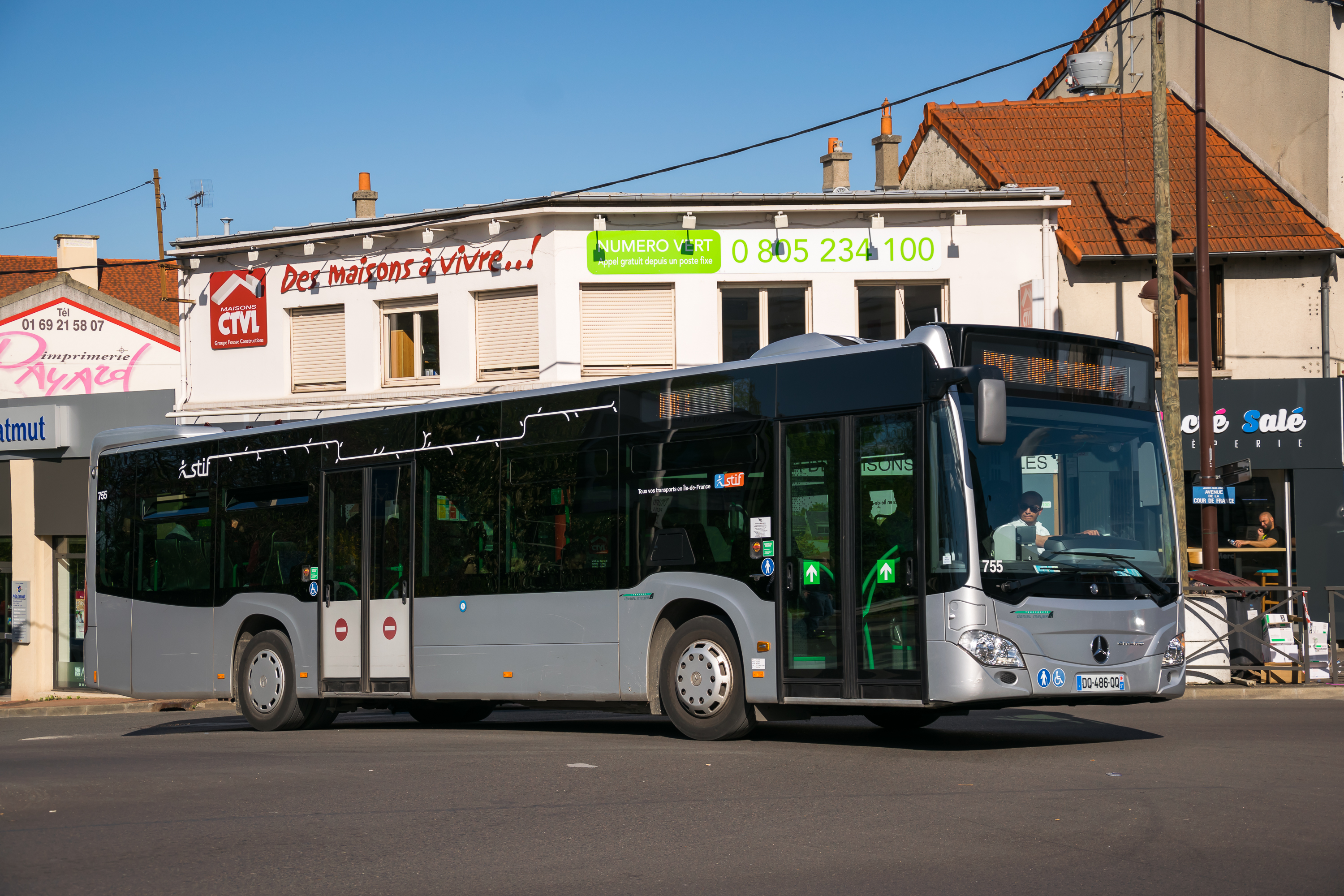 Mercedes Citaro 755 Daniel Meyer, ligne DM04, Juvisy Bus transport in Paris and Île-de-France.